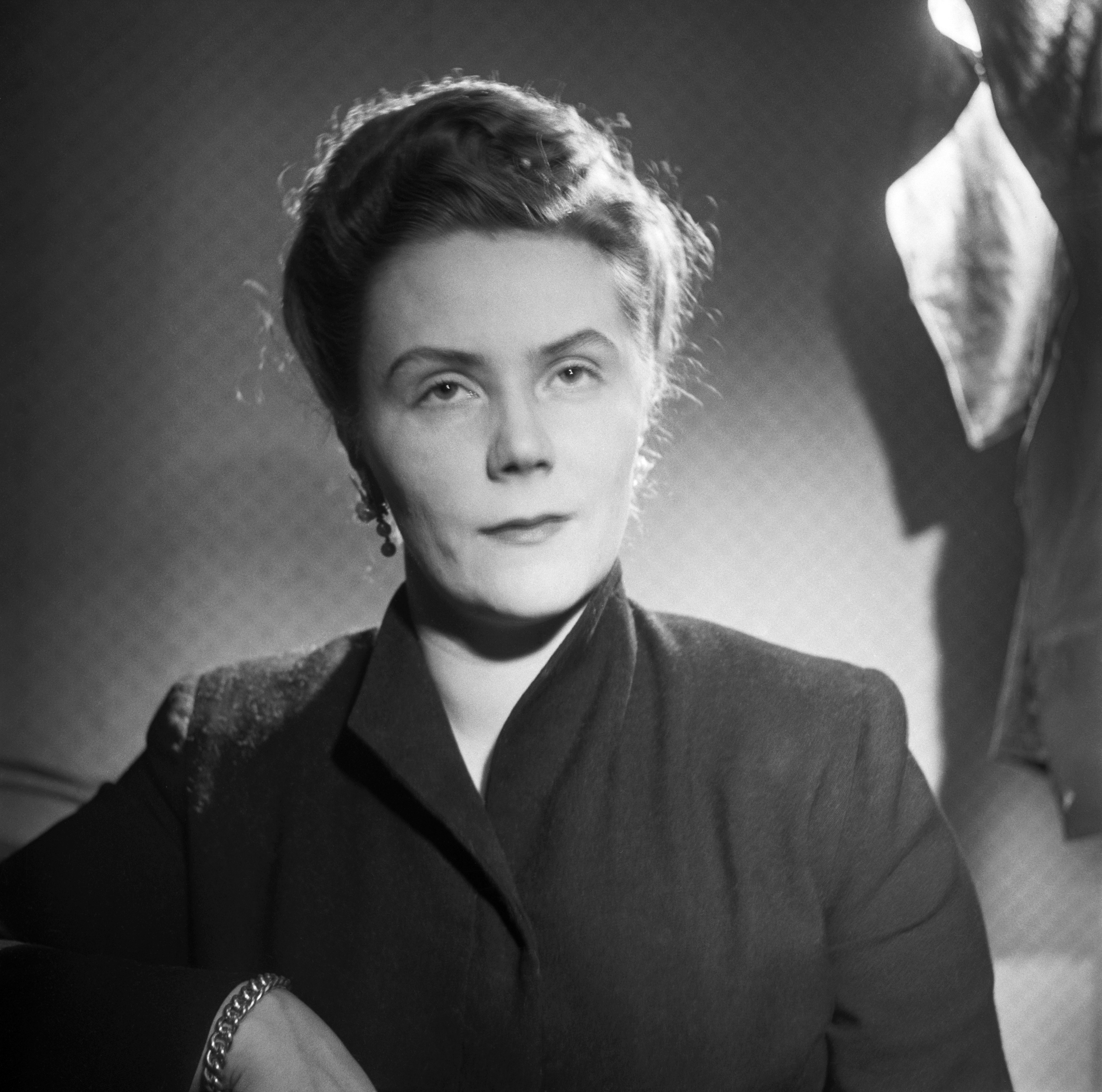 Photograph of the Finnish fashion artist Riitta Immonen (1918–2008).